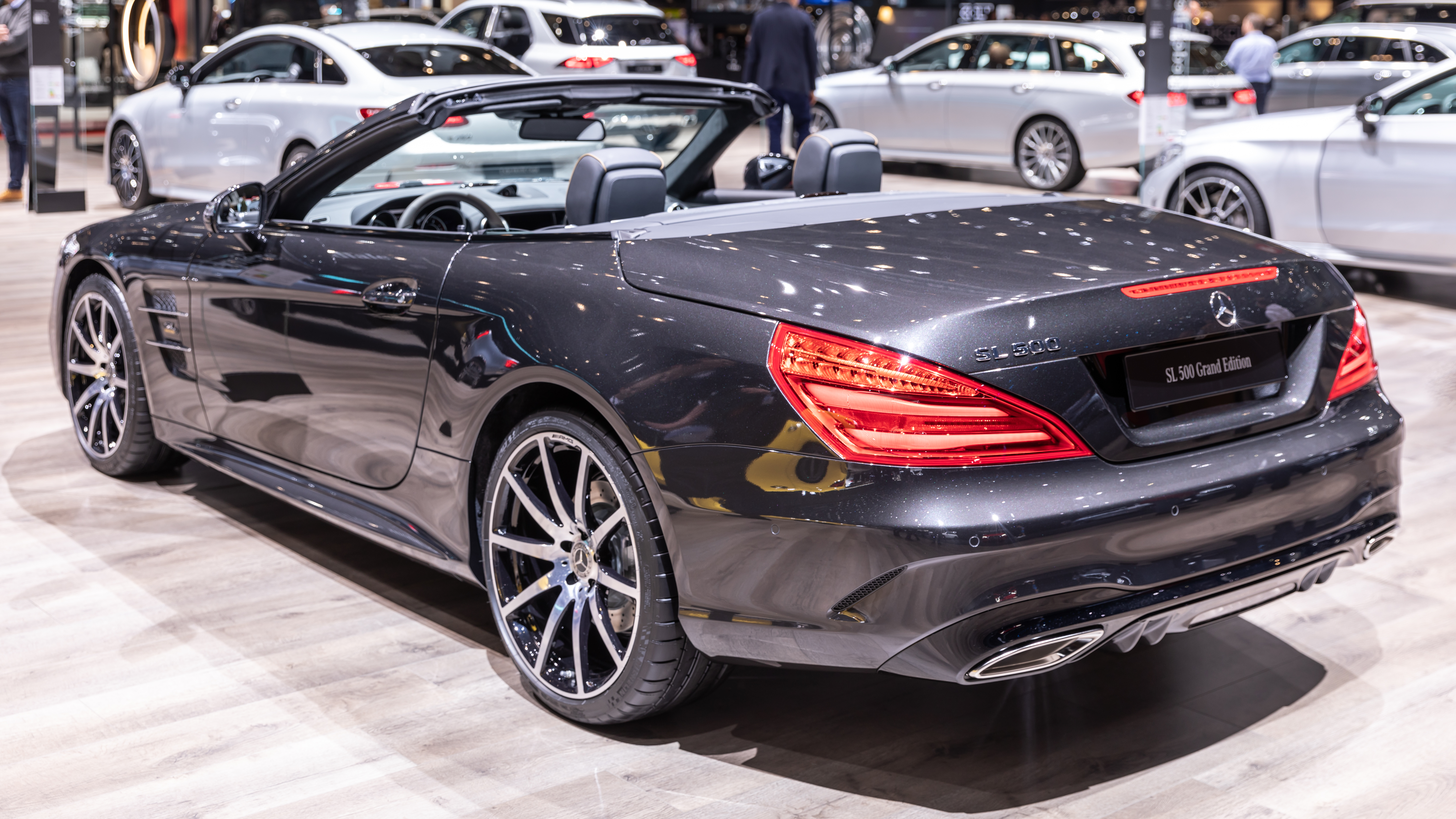 Geneva International Motor Show 2019, Le Grand-Saconnex